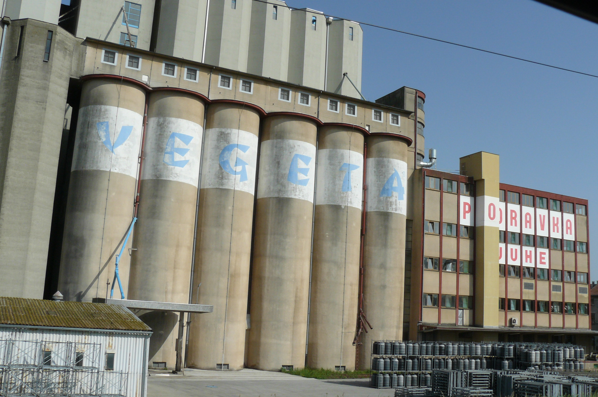 Podravka Factory - Koprivnica.